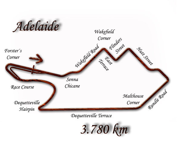 Diagram of the Circuit Adelaide. Used for Australian Grands Prix from 1985 to 1995.